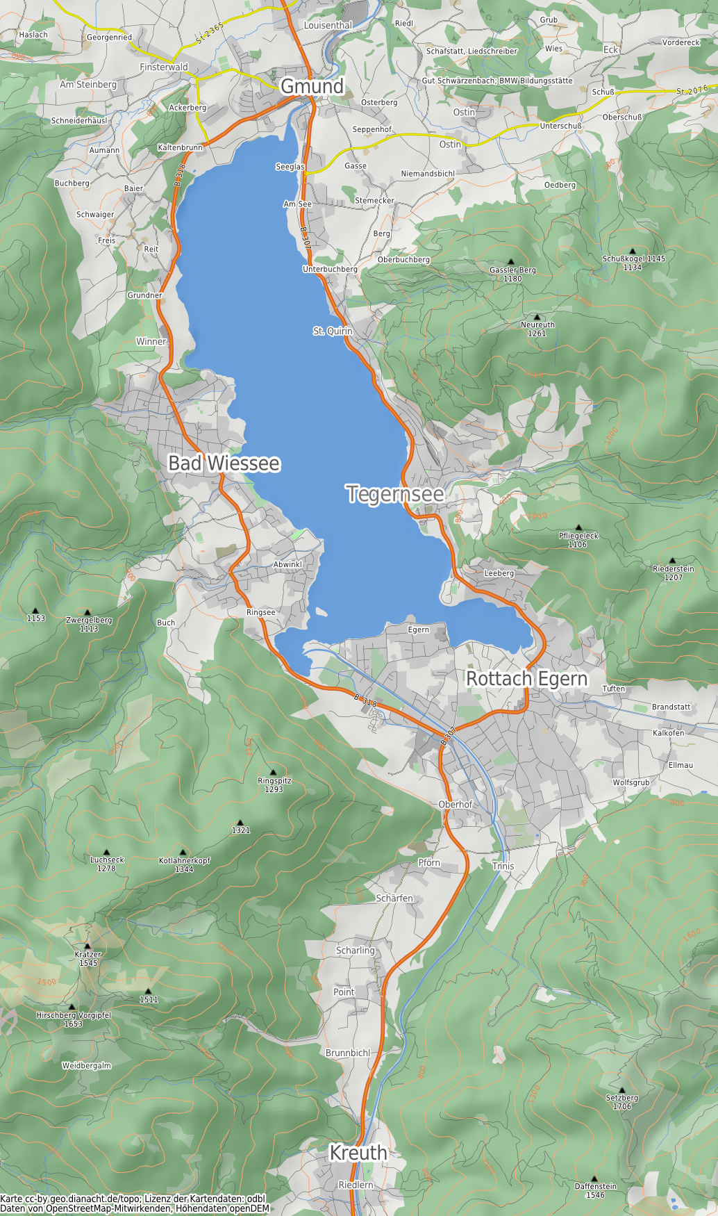 This map may be incomplete, and may contain errors. Don't rely solely on it for navigation.